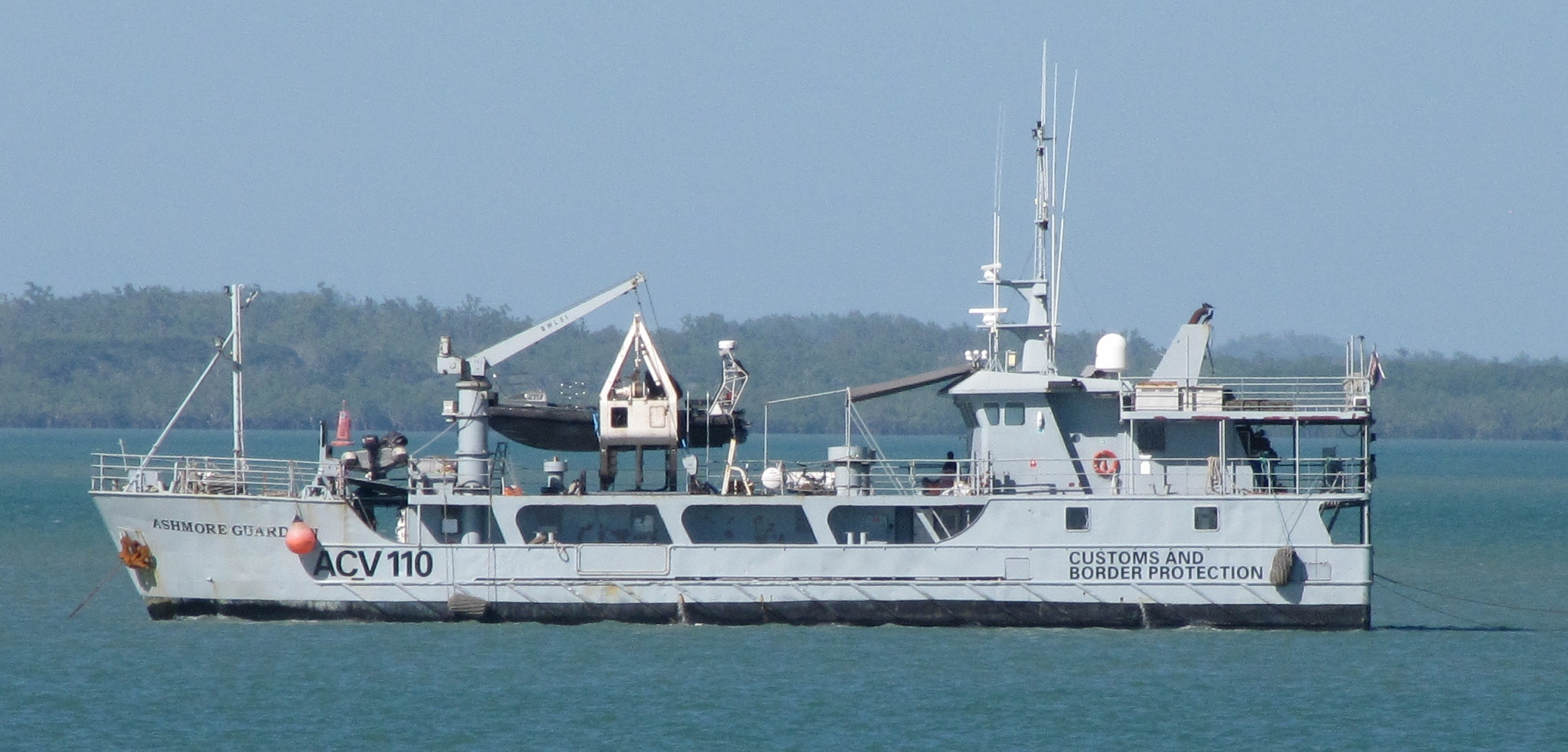 Australian Customs Vessel Ashmore Guardian ACV110 in Darwin Harbour. This ship is usually stationed at Ashmore Reef for normal duty.